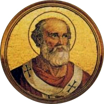 Portrait of Pope Benedict II in the Basilica of Saint Paul Outside the Walls, Rome